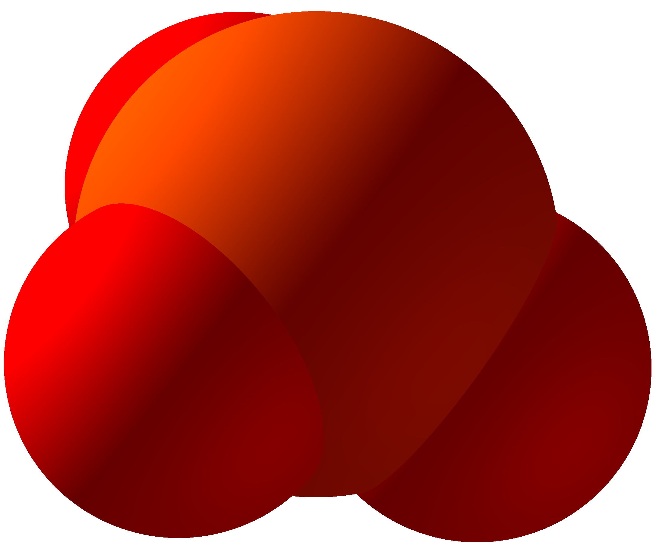 Phosphite ion Space Fill